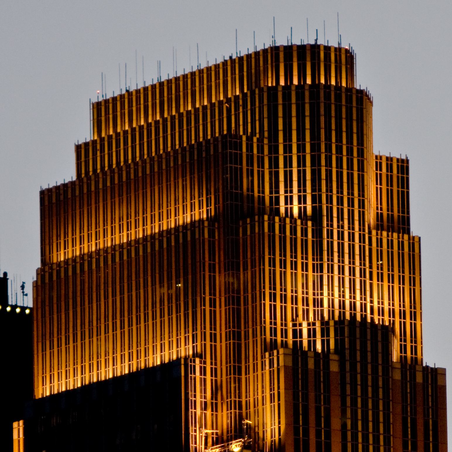 The Wells Fargo Center tower in Downtown Minneapolis.